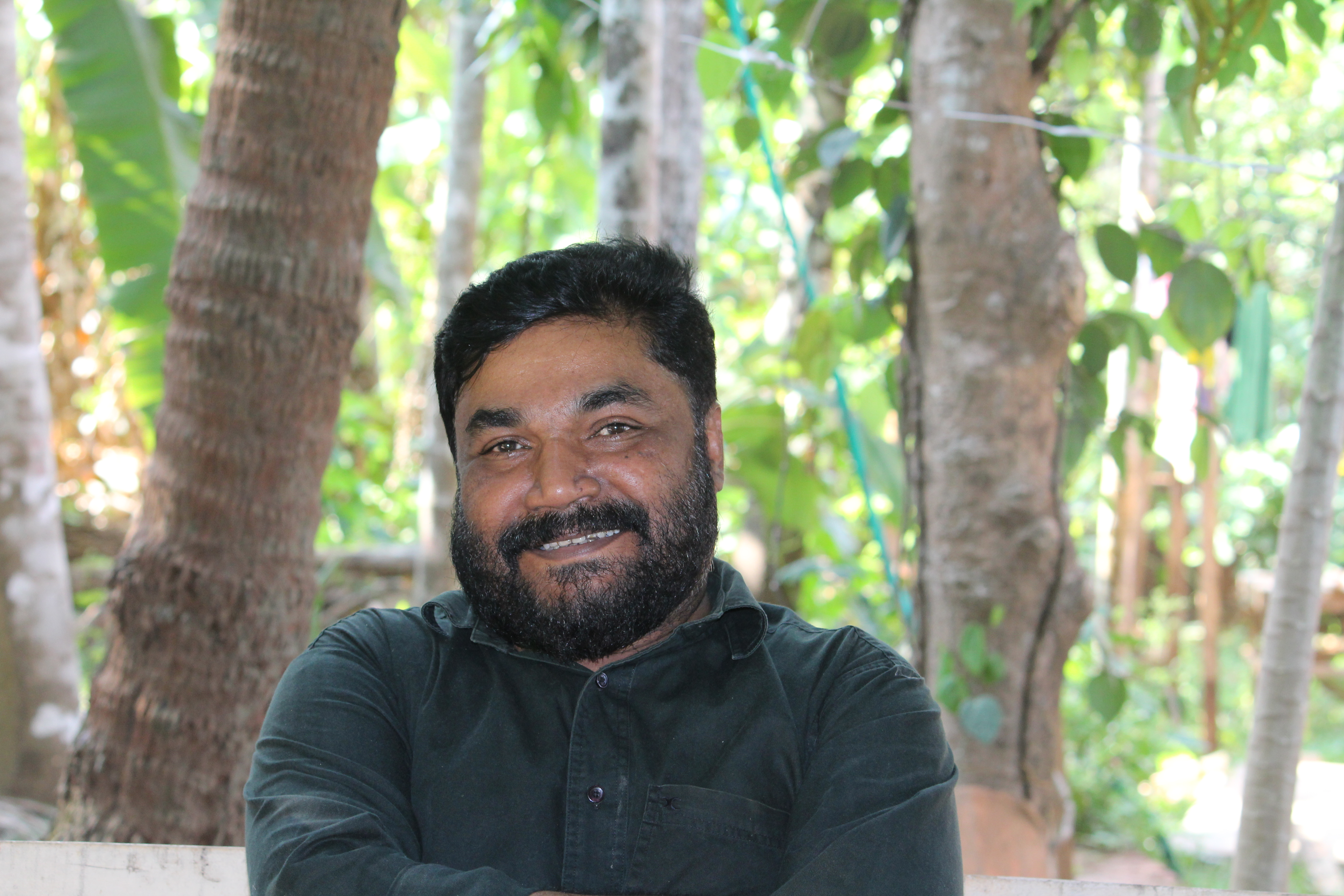 malayalam drama director, script writer